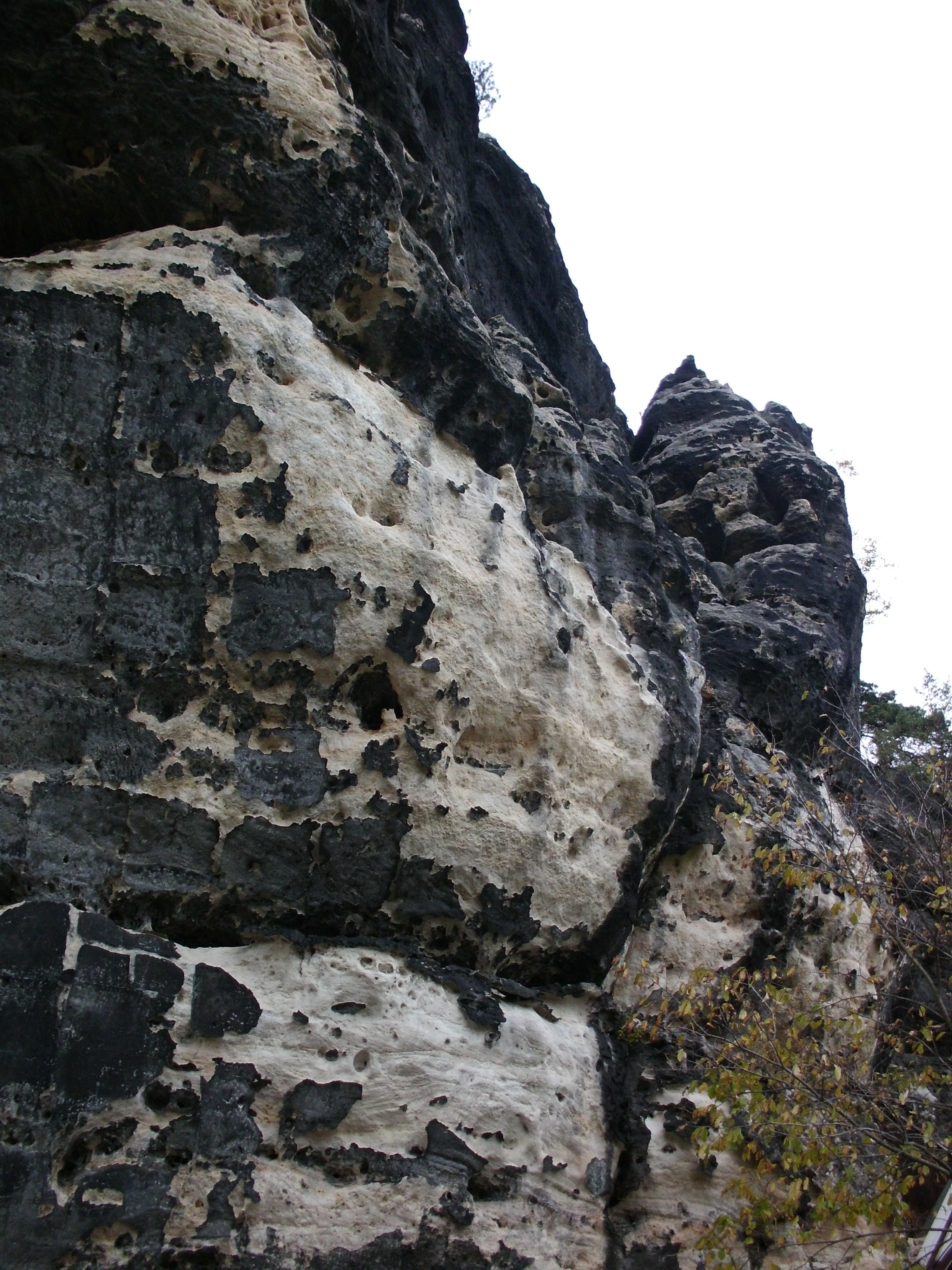 National natural monument Pravčická brána in Děčín District, Czech Republic.